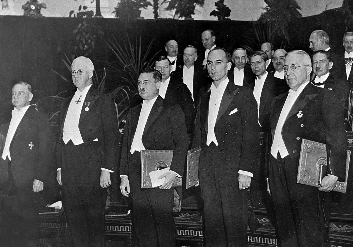 King of Sweden presents Nobel prizes in Stockholm. Prof Otto Loewi, Sir Henry Dale, Prof. Peter Debye, Dr. C.D. Anderson, Prof. Hess